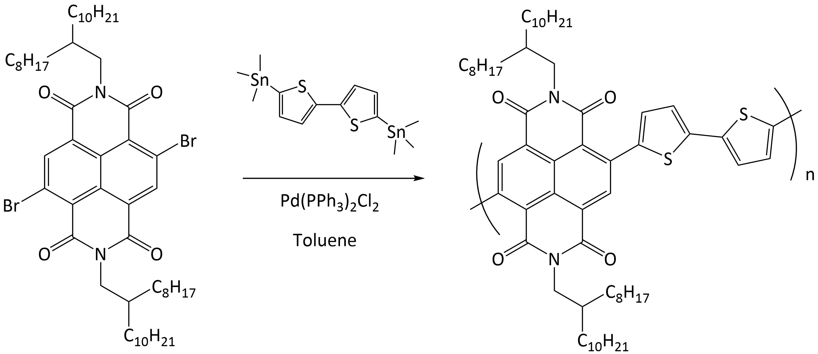 N2200-polymerization-Stille